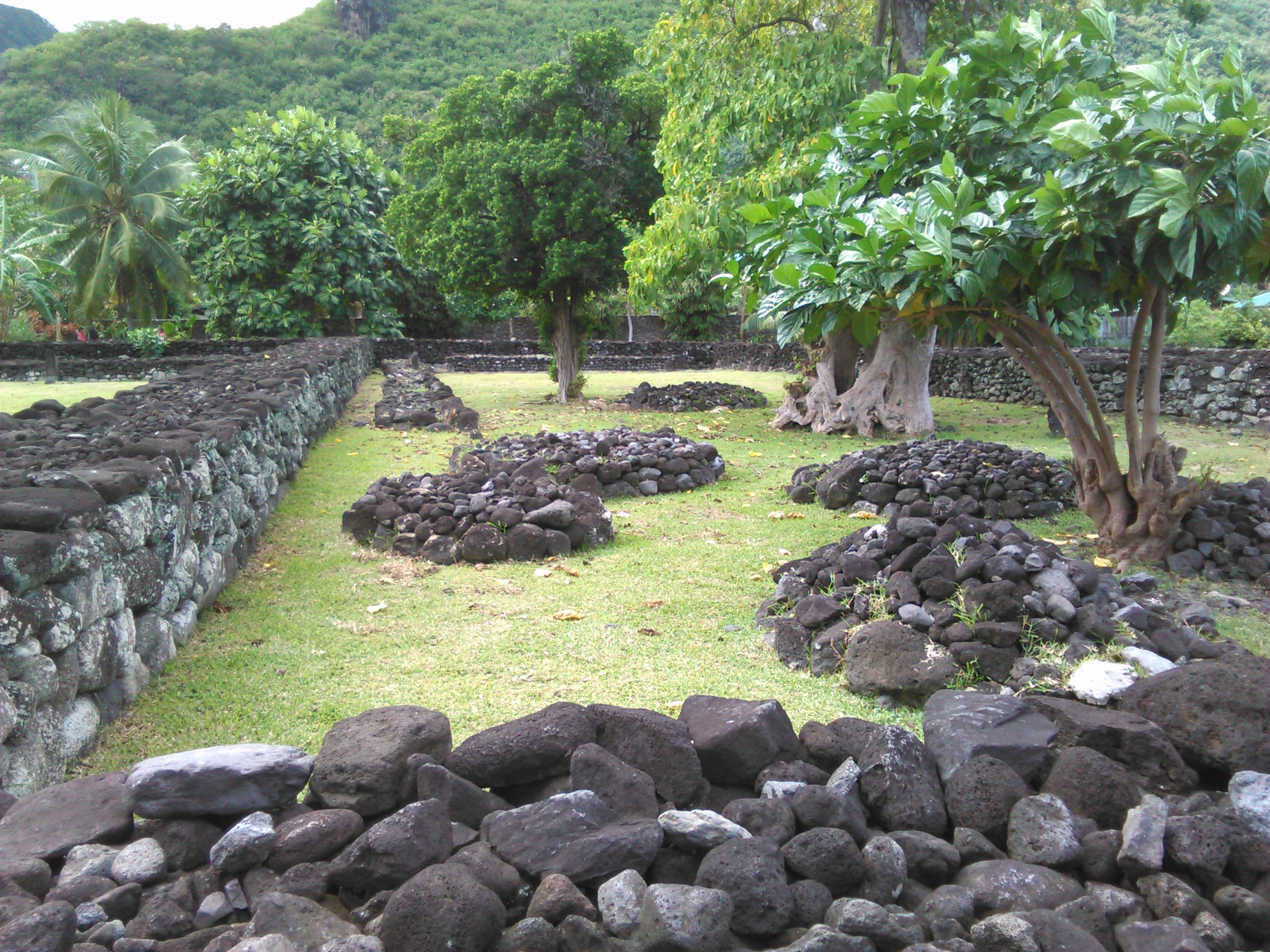 Marae-Ta'ata, ancient polynesian praying site in Paea, Tahiti.